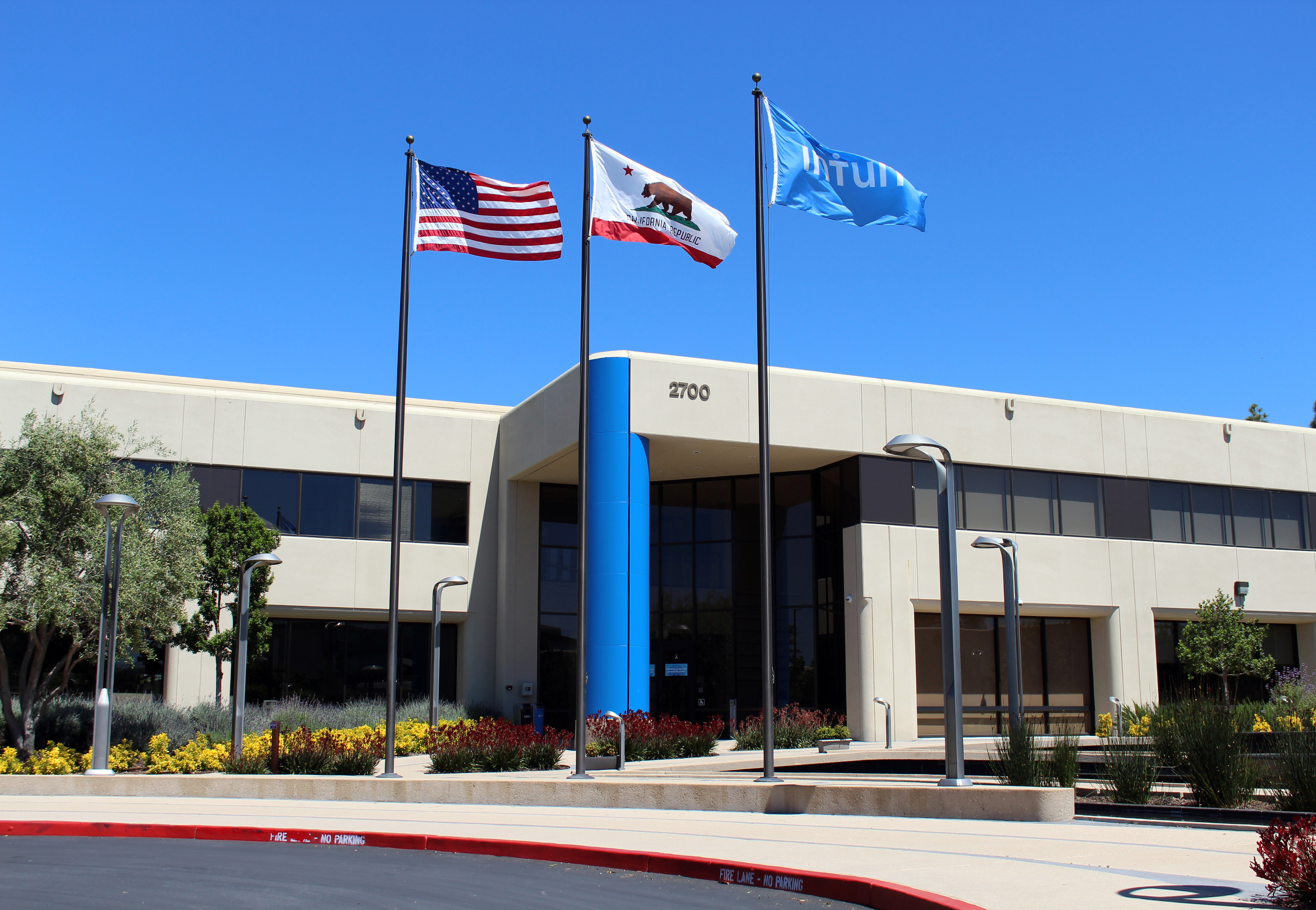 Intuit headquarters at 2700 Coast Avenue in Mountain View, California. Photographed by user Coolcaesar on April 29, 2017.